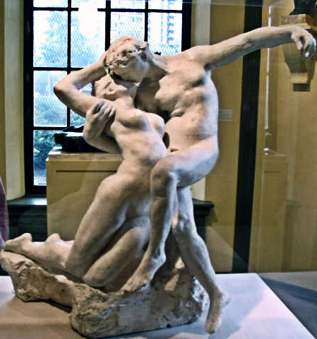 The Eternal Spring Kiss by Auguste Rodin